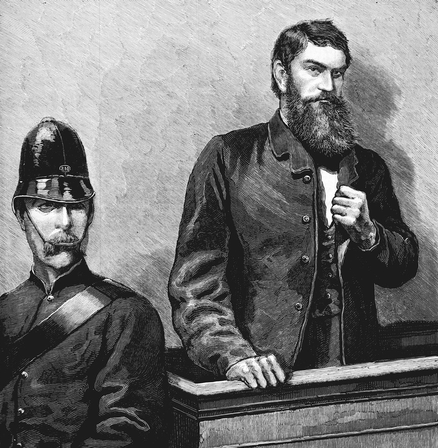 "KELLY IN THE DOCK. - A SKETCH FROM LIFE", wood engraving, printed in The Illustrated Australian News.